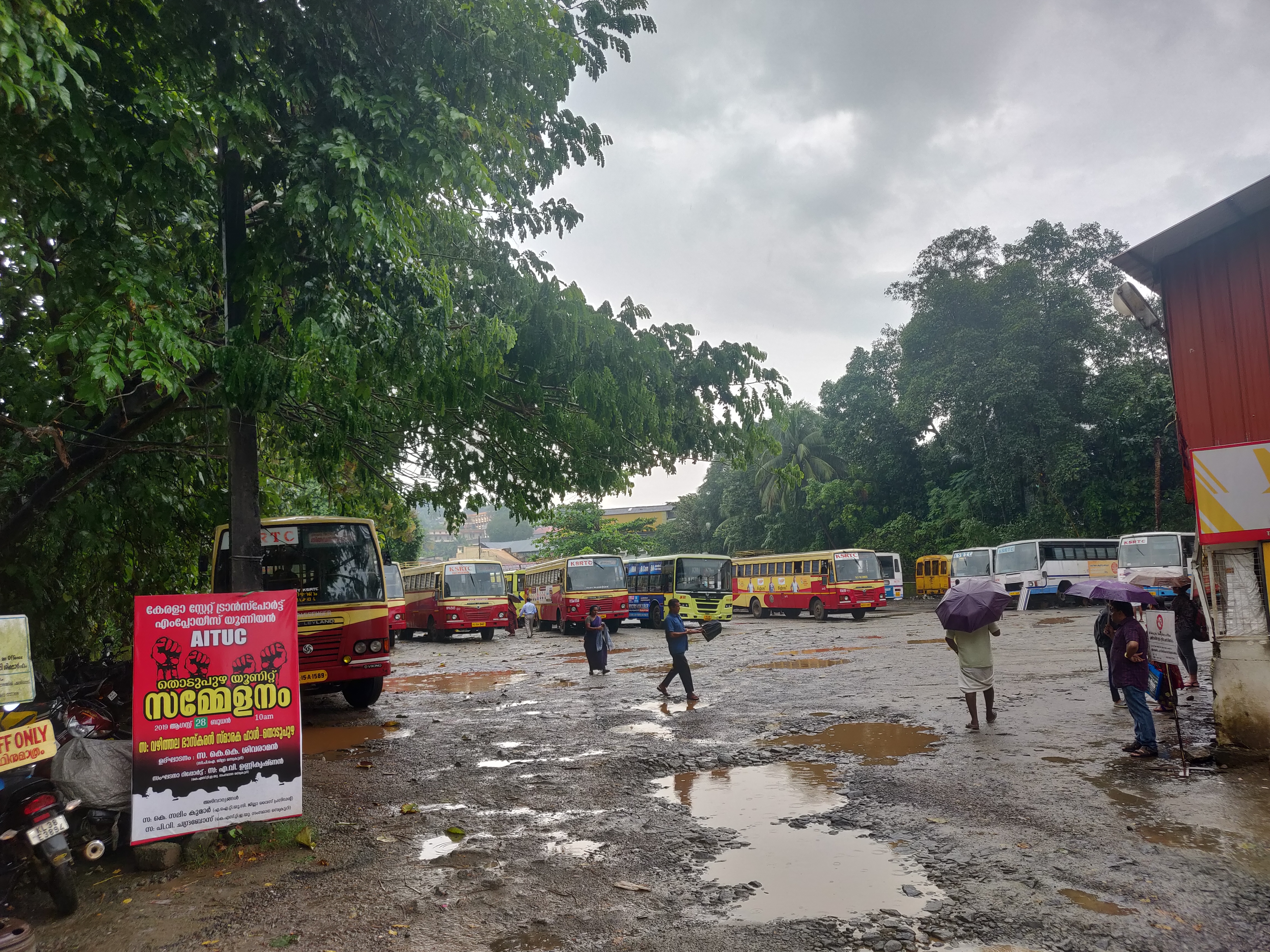 Thodupuzha KSRTC bus stand, Kerala, India